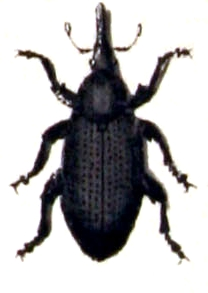 Orchestes fagi, from Calwer's Käferbuch, Table 33, Picture 18. Taxonomy was updated to 2008, using mostly the sites Fauna Europaea and BioLib. Please contact Sarefo if the determination is wrong!